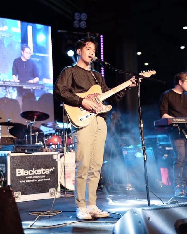 โอ ปวีร์ ในการแสดง JOOX Live ณ Terminal 21 วันที่ 6 เมษายน พ.ศ. 2561